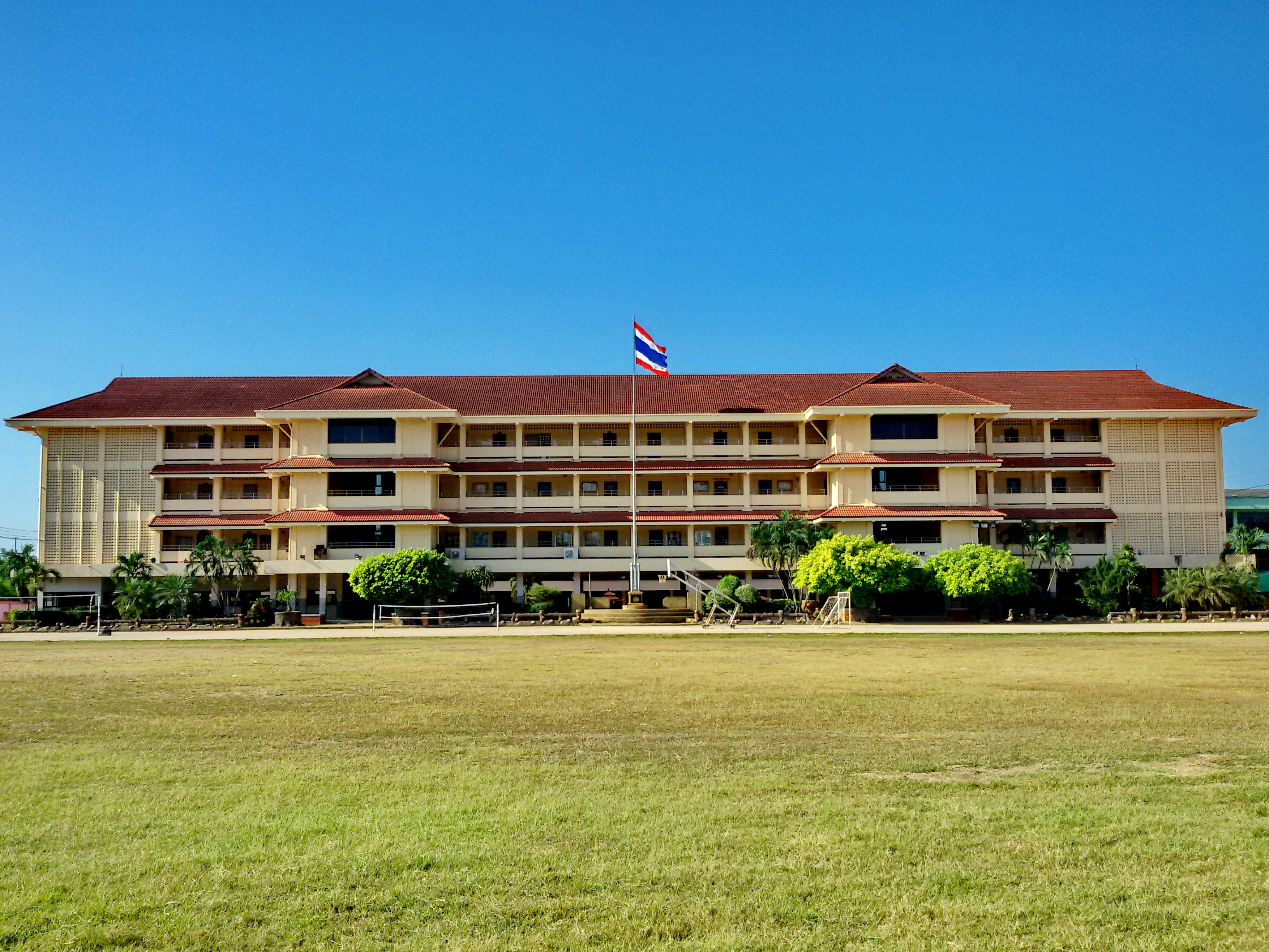 โรงเรียนสระแก้ว (โรงเรียนประจำจังหวัด โรงเรียนขนาดใหญ่พิเศษ) โรงเรียนมาตรฐานสากล